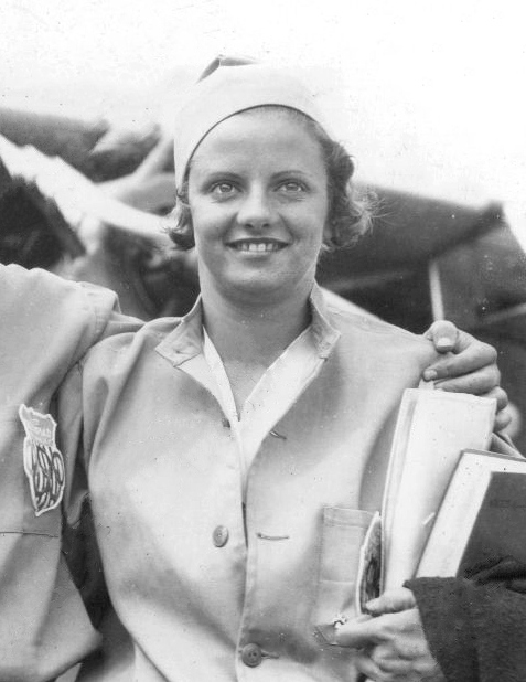 1932 Olympic Goodwill Tour Olympians Georgia Coleman & Jo McKim Press Photo